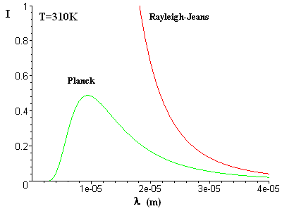 Comparison of the Planck and Rayleigh-Jeans laws for black body radiation (ultraviolet catastrophe).